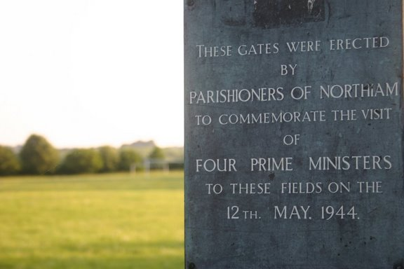 On 12 May 1944, four prime ministers visited the troops before D-Day in Normandy. The village field gates were erected to commemorate the visit. The prime ministers were the Rt. Hon. Winston S. Churchill of the United Kingdom, the Rt. Hon. Mackenzie King of Canada, the Rt. Hon. Field Marshal Jan Christian Smuts of South Africa and the Hon. Sir Godfrey M. Huggins of Southern Rhodesia.